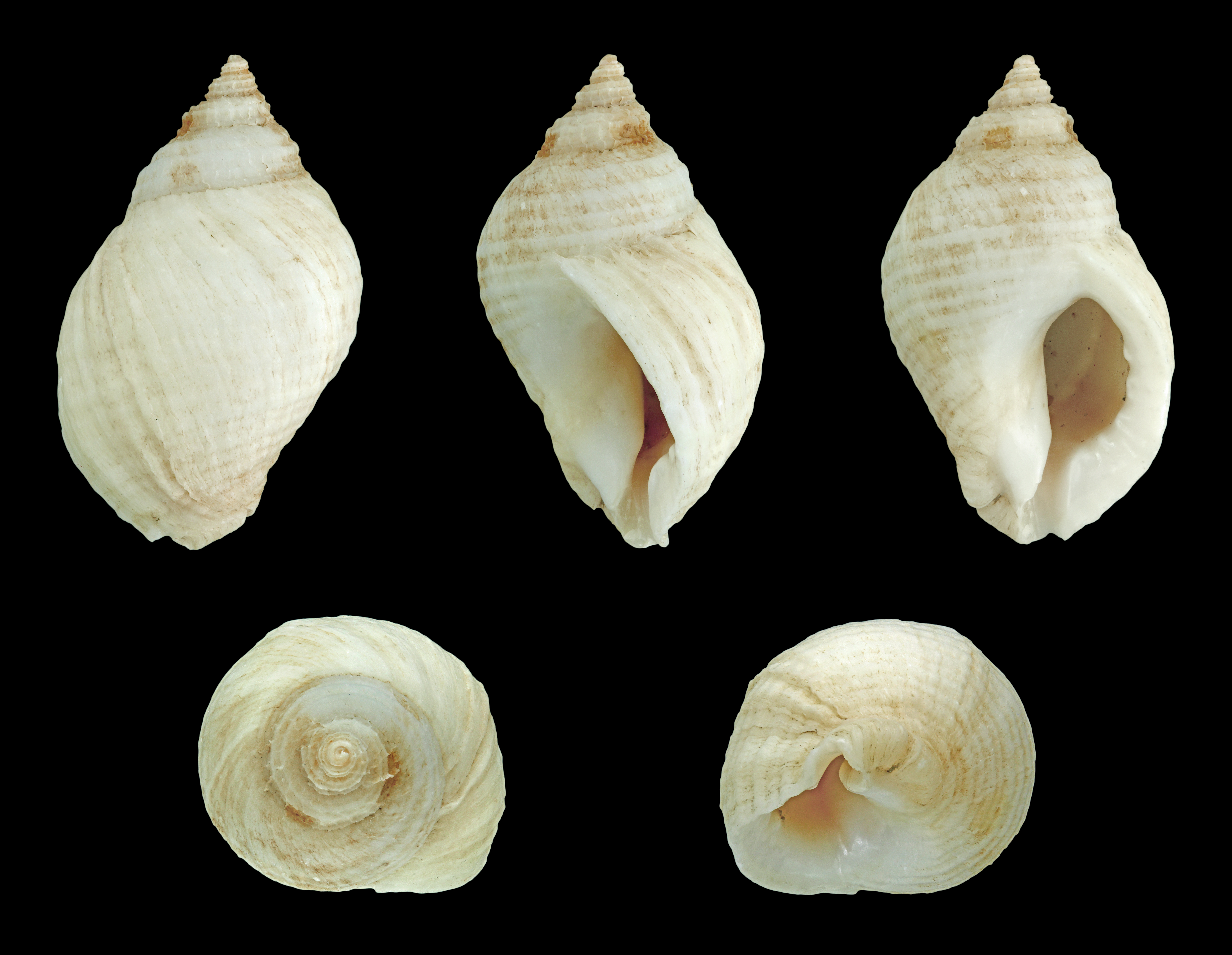 Dog Whelk; Length 2.8 cm; Originating from the Channel coast North of Caen, France; Shell of own collection, therefore not geocoded. Dorsal, lateral (right side), ventral, back, and front view.